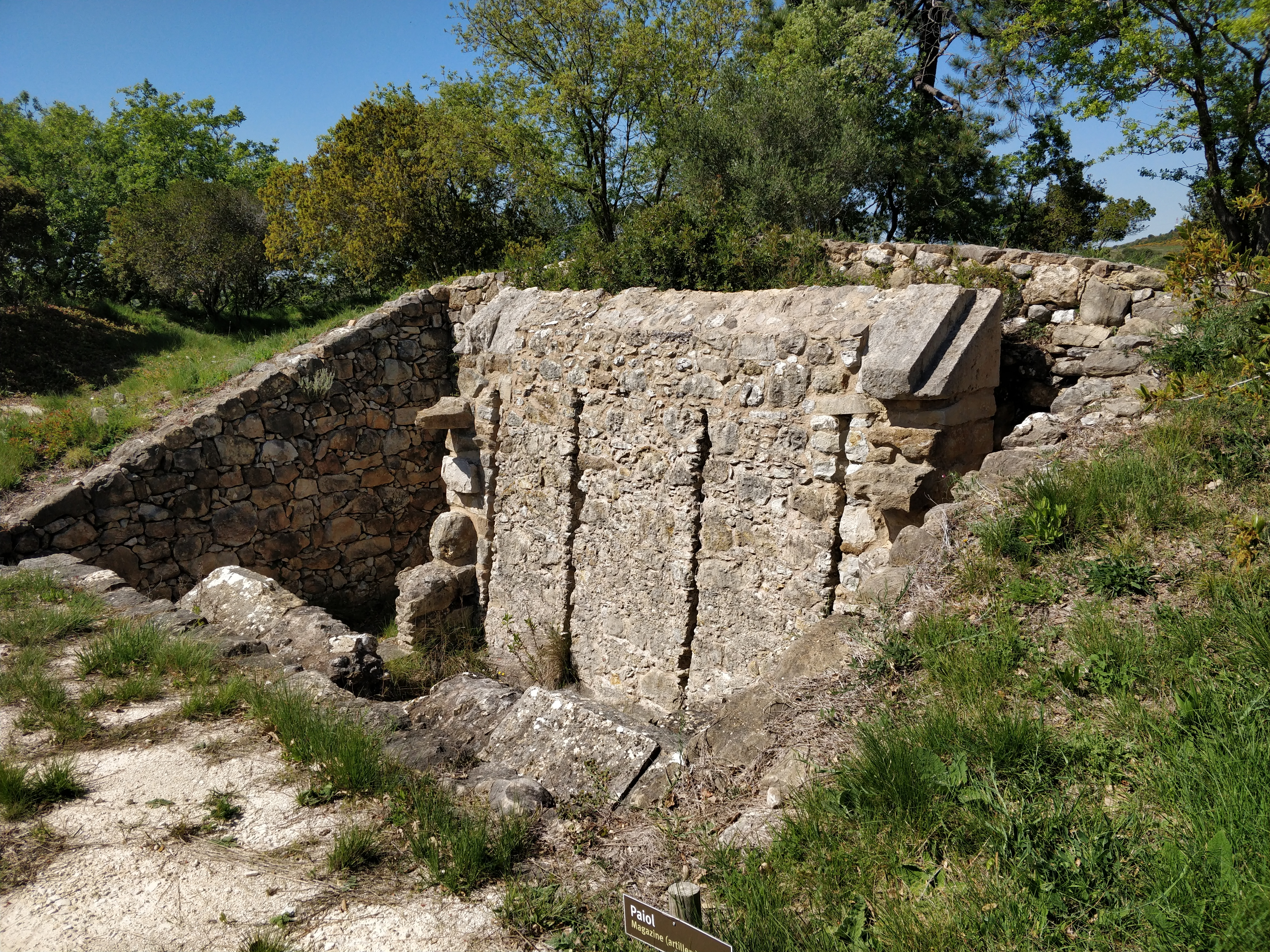 Armory of the Fort of Arpim, near Bucelas in the Lisbon District of Portugal. The fort was one of the forts in the first line of defence of the Lines of Torres Vedras